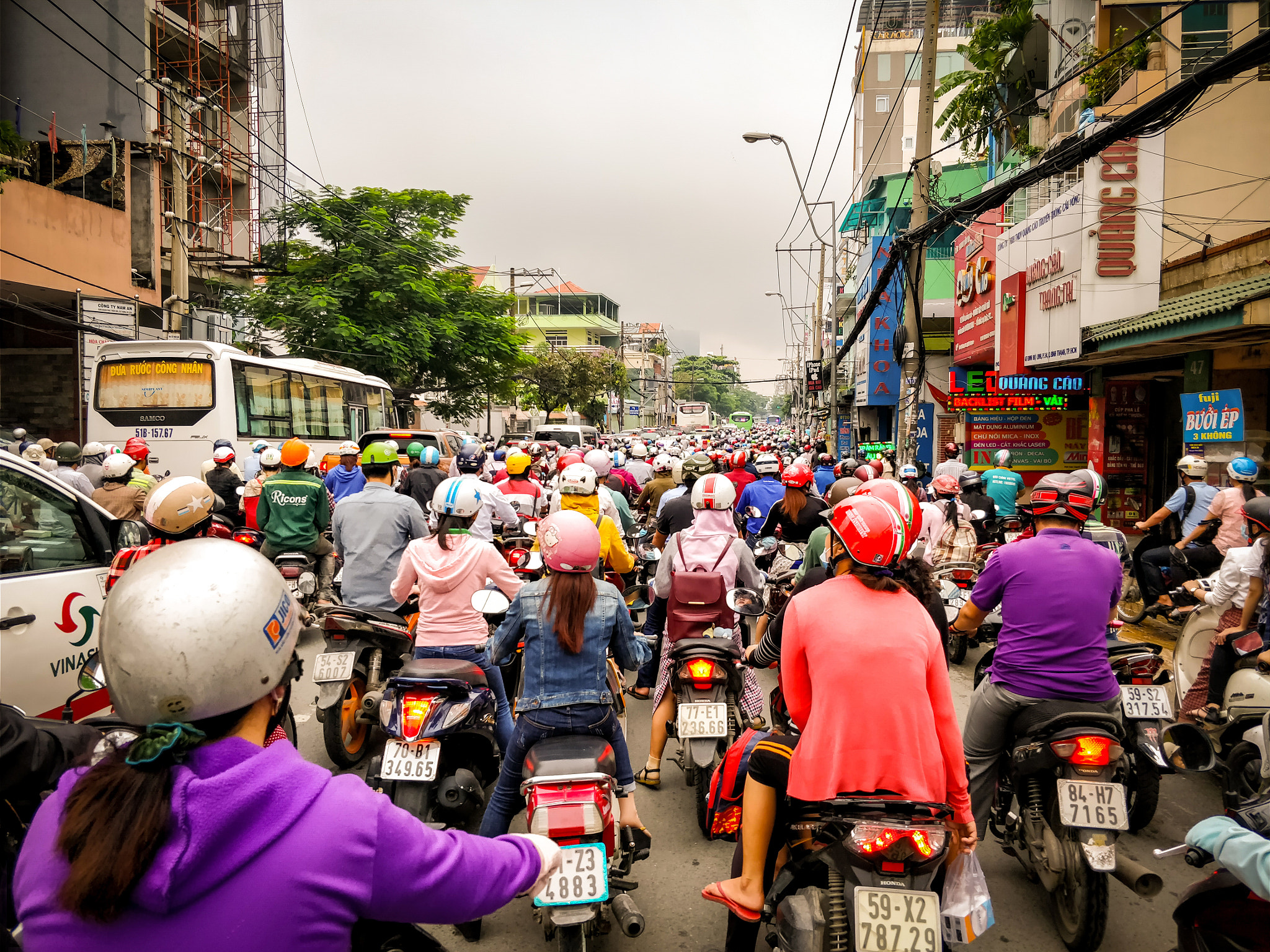 500px provided description: A casual Monday morning on my way to work [#street ,#road ,#traffic ,#scooter ,#Vietnam ,#traffic jamed]